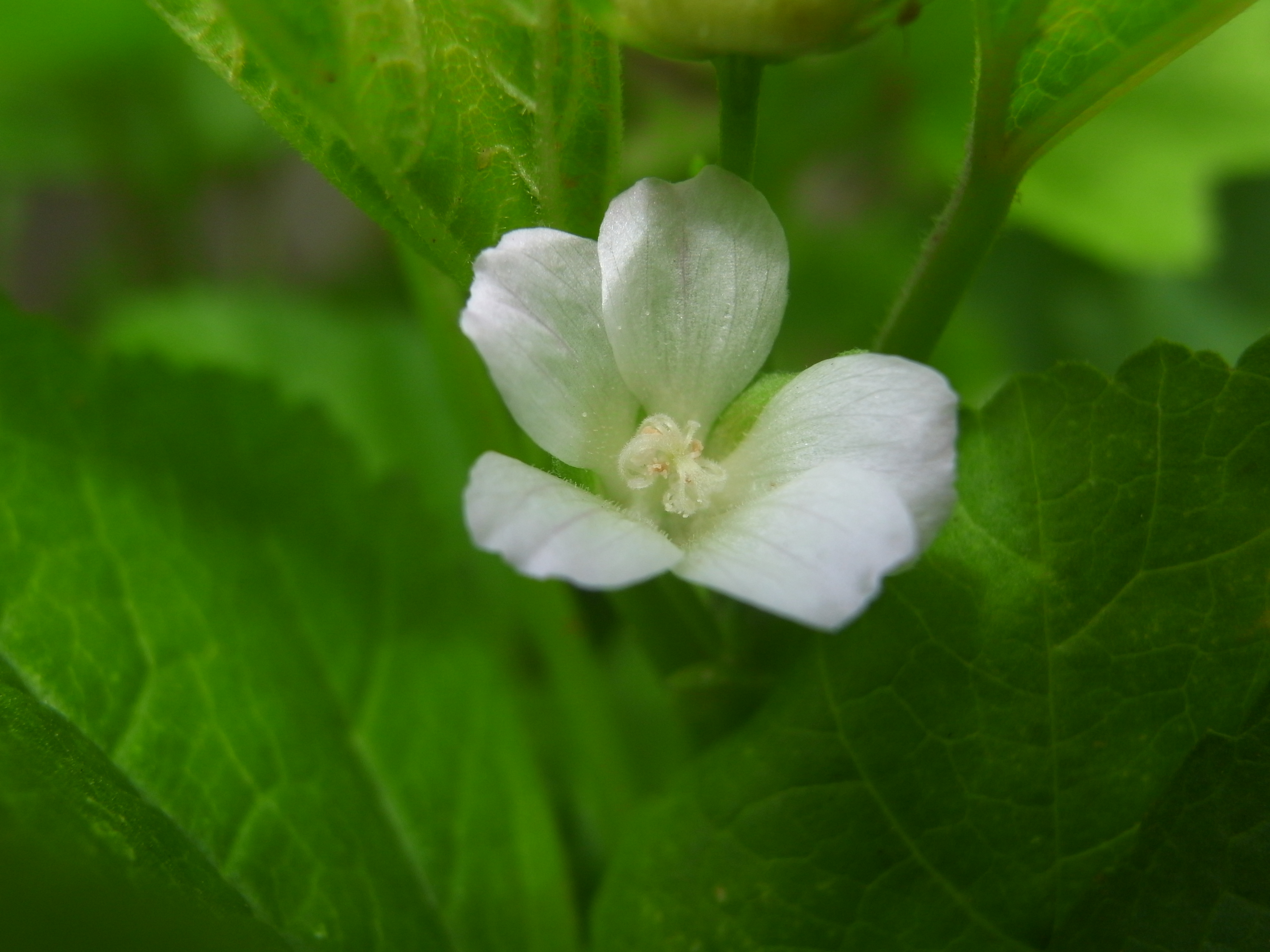 Malva verticillata